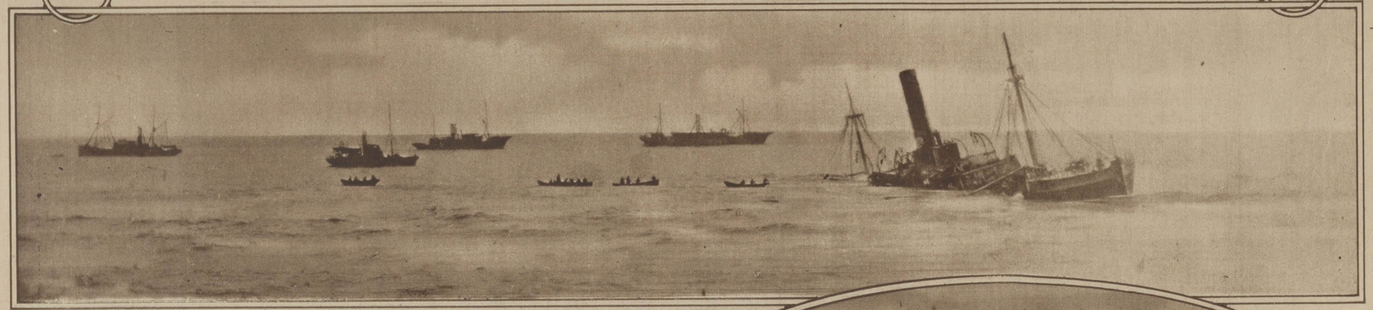 Caption "The rescue fleet assembled about hte sunken Florizel, at 8:30 O'clock on the morning of Feb. 24, when rescue work was at its height. The can be seen low on the Eastern Horizon"